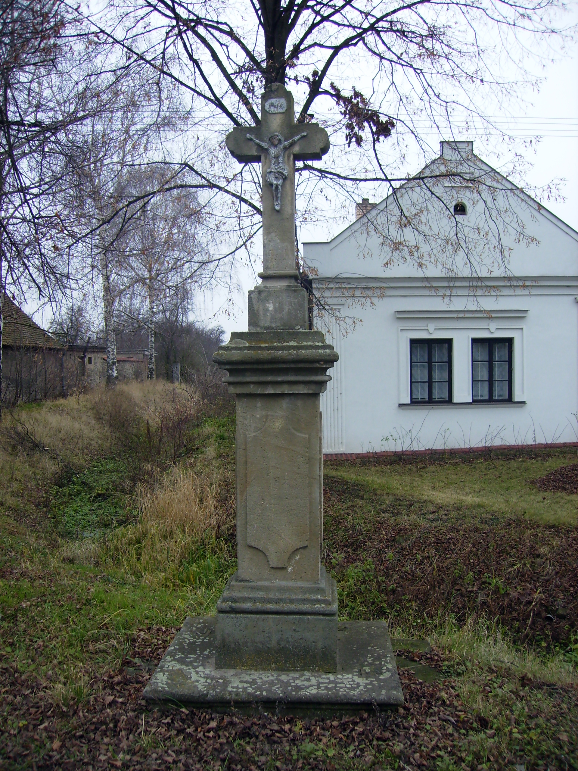 Starý Vestec - holly place - cross, Central Bohemia, Czech Republic